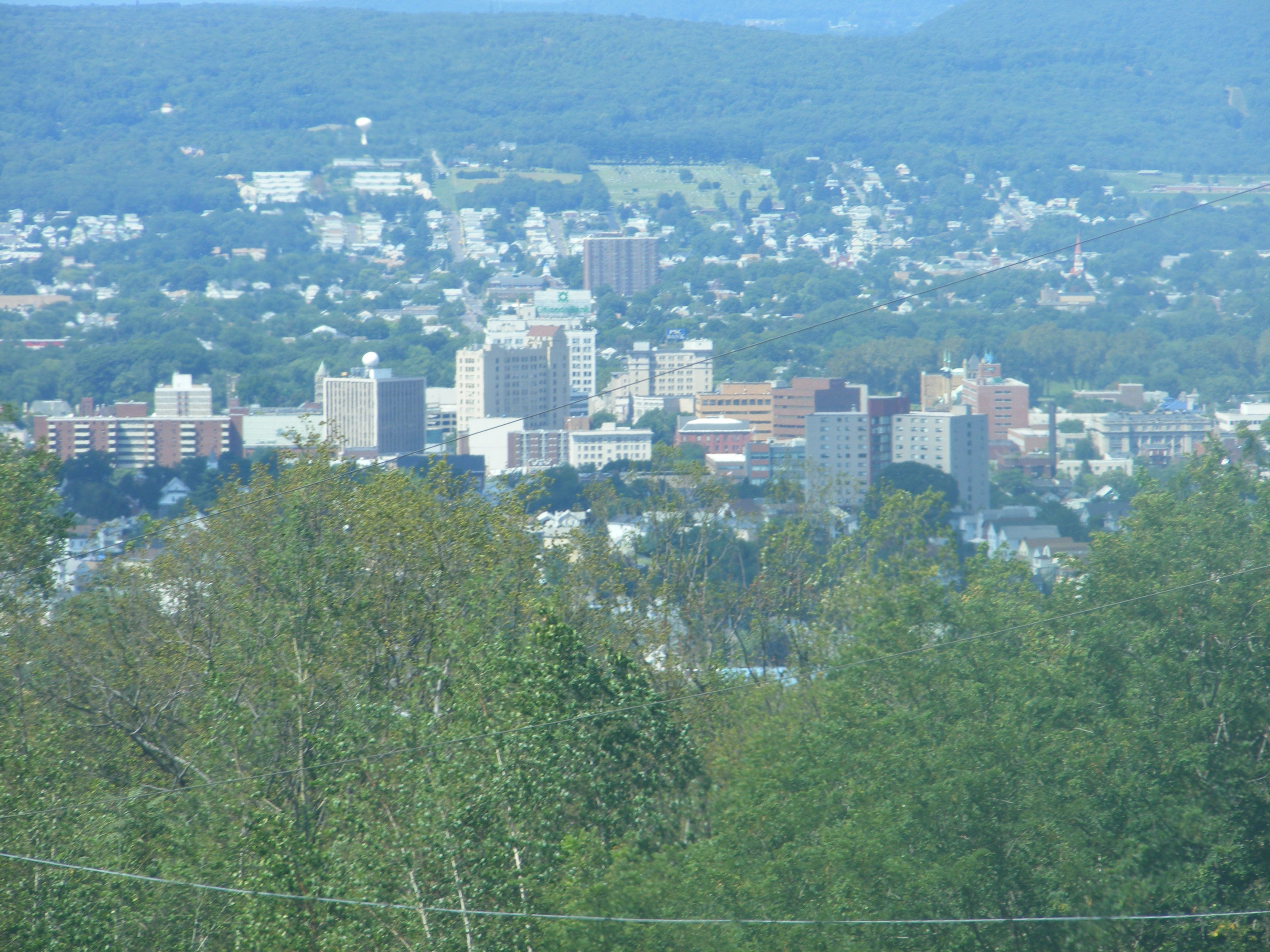 Author: Vasiliy Meshko source: self made